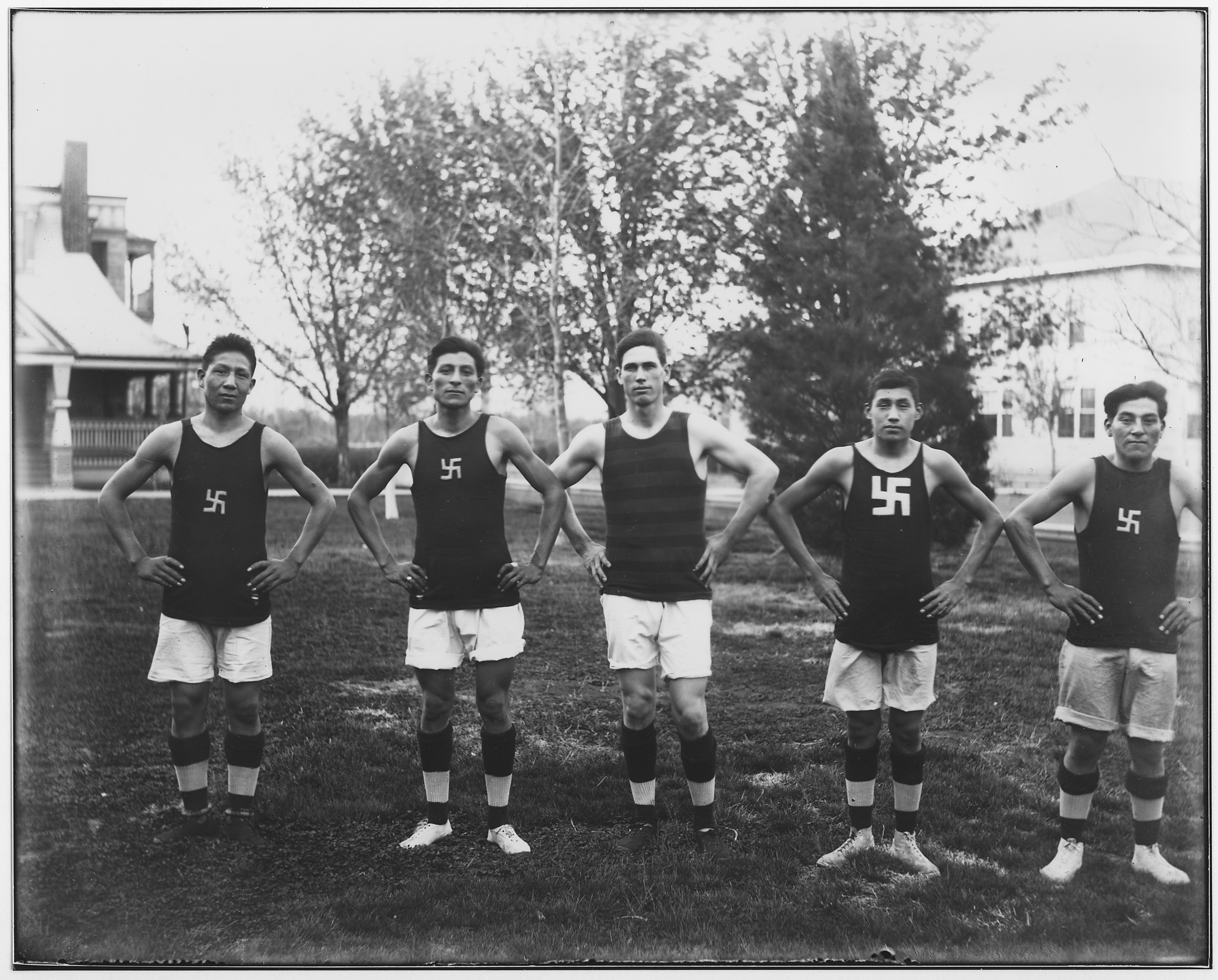 Scope and content: This photograph is part of a series of glass plate negatives used by the Chilocco Indian School print shop in publishing the Indian School Journal.